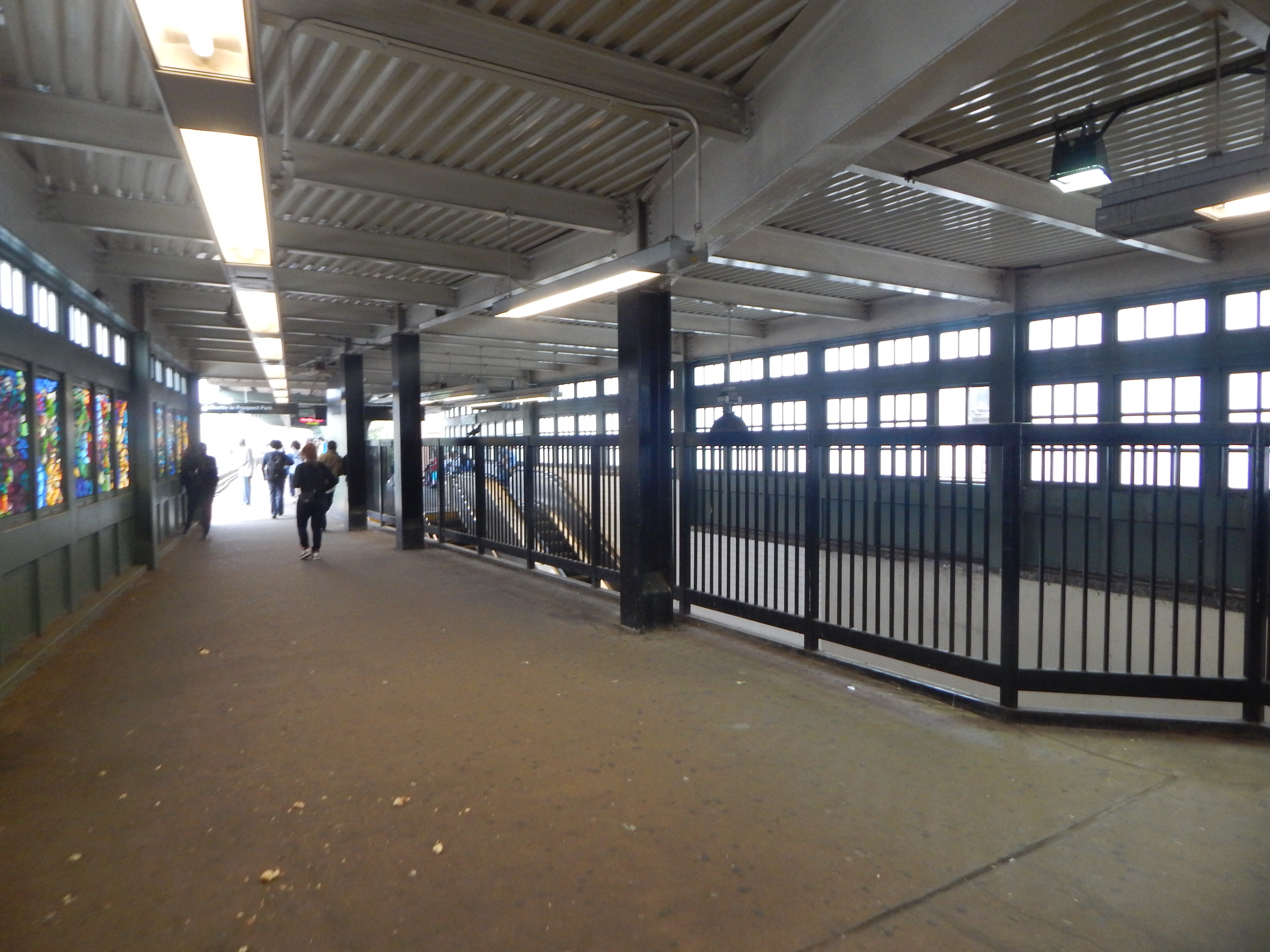 Bedford-Stuyvesant, Brooklyn, New York